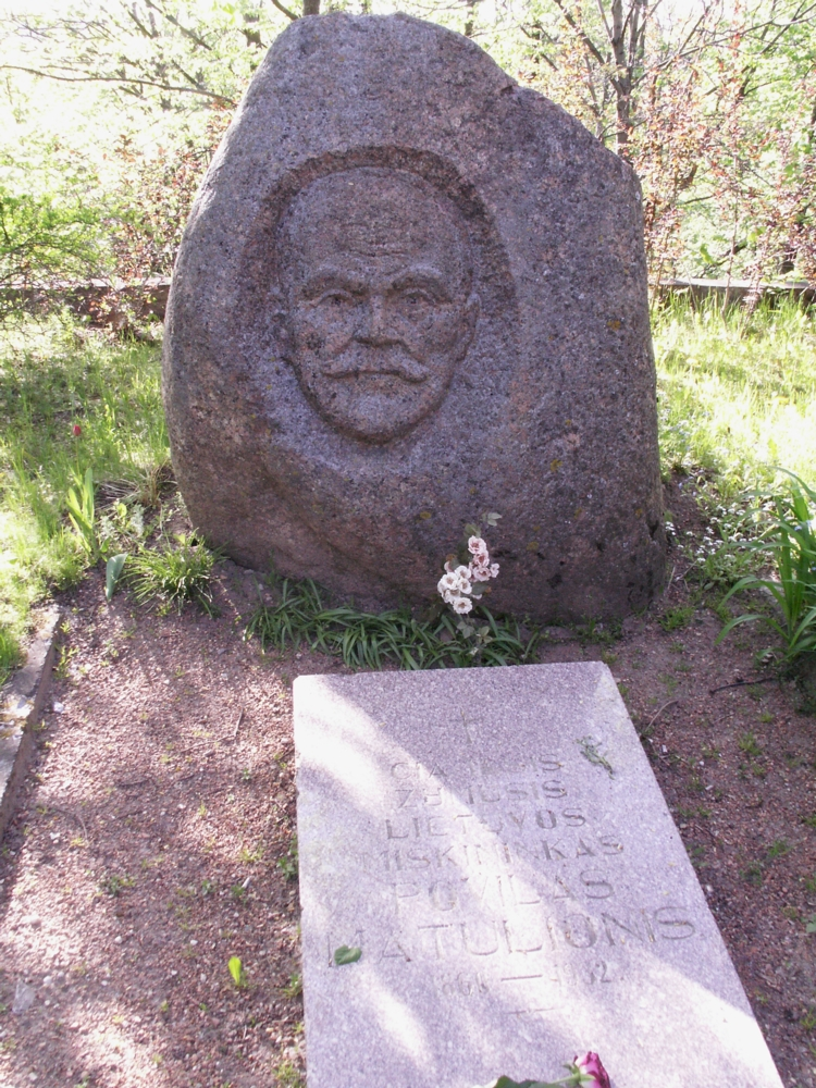 Grave of prof. Povilas Matulionis in Aleksandrija